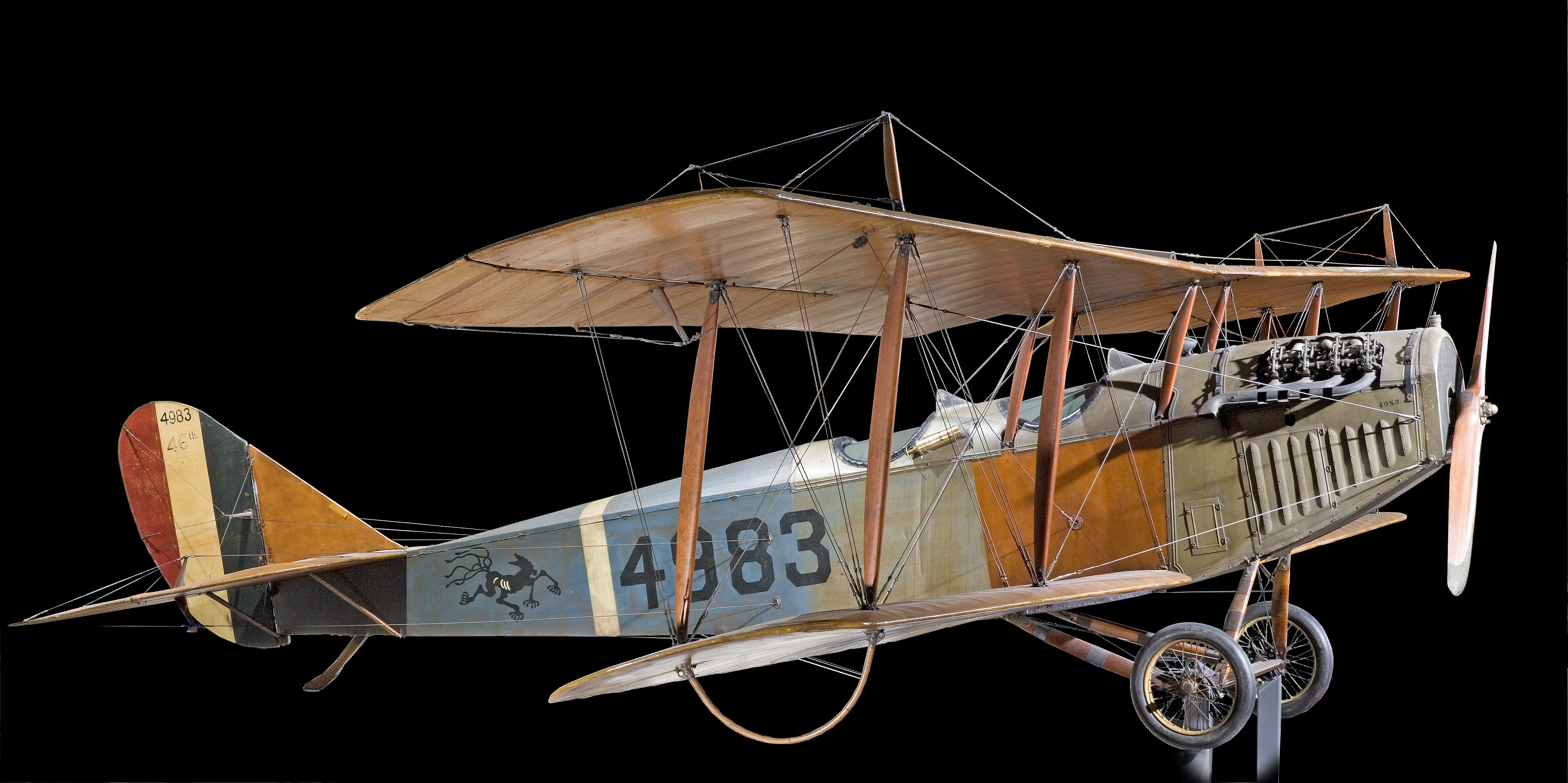 One-quarter front right side view of Curtiss JN-4D Jenny (A19190006000), artificially silhouetted on black background